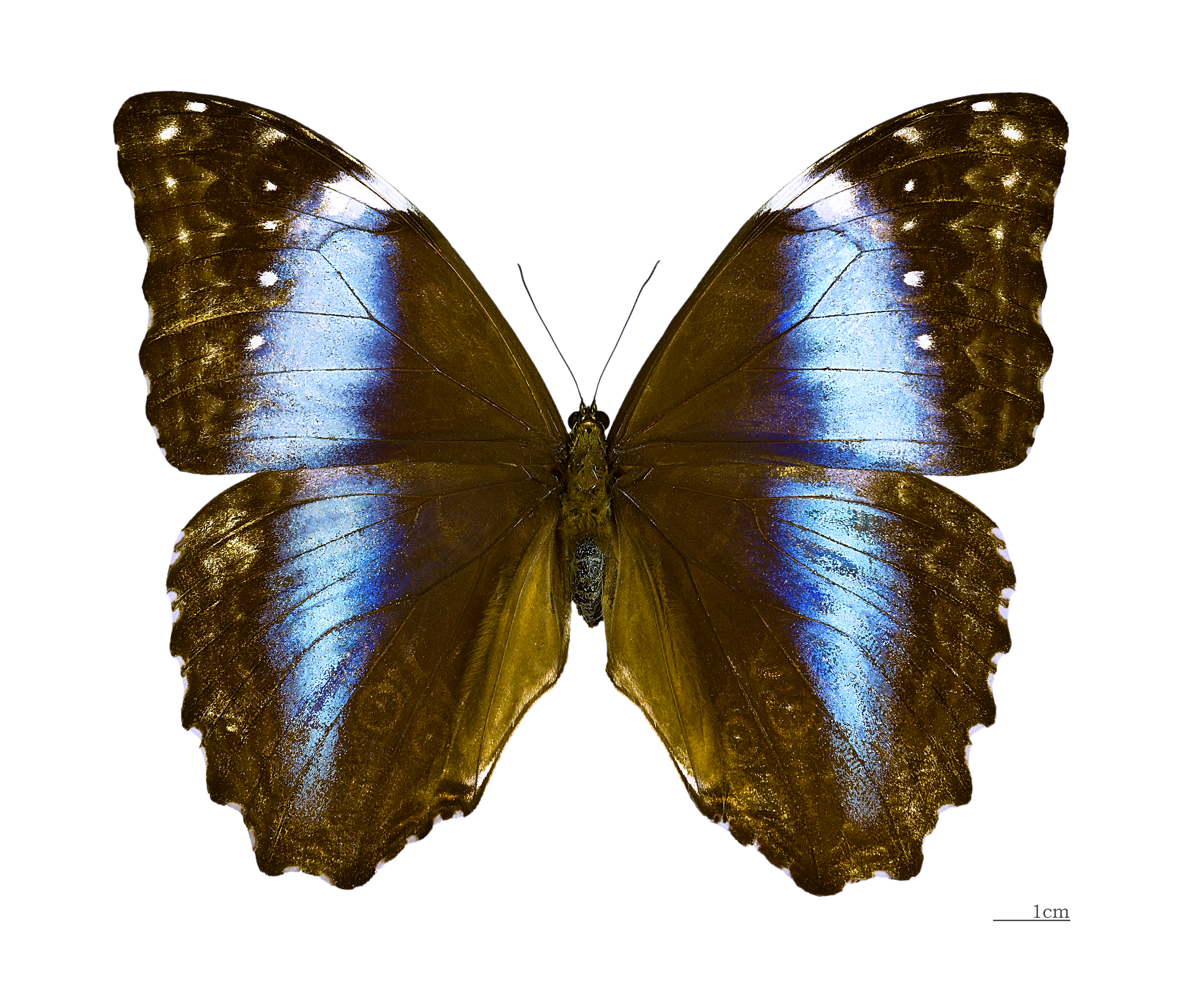 Morpho deidamia deidamia - Dorsal side